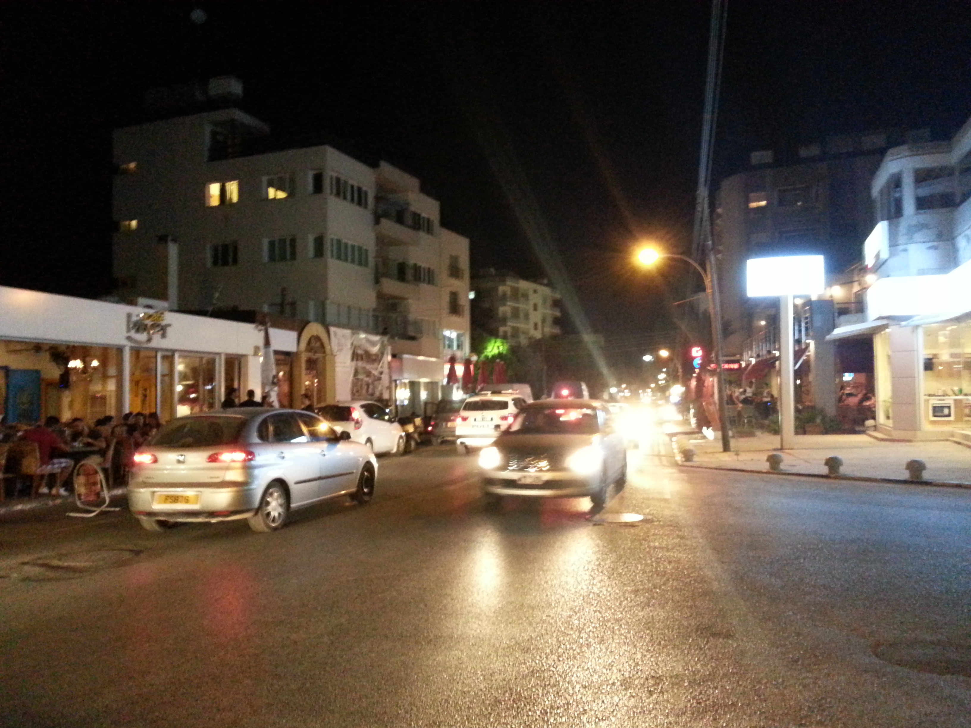 A view from the bustling Dereboyu Street at night